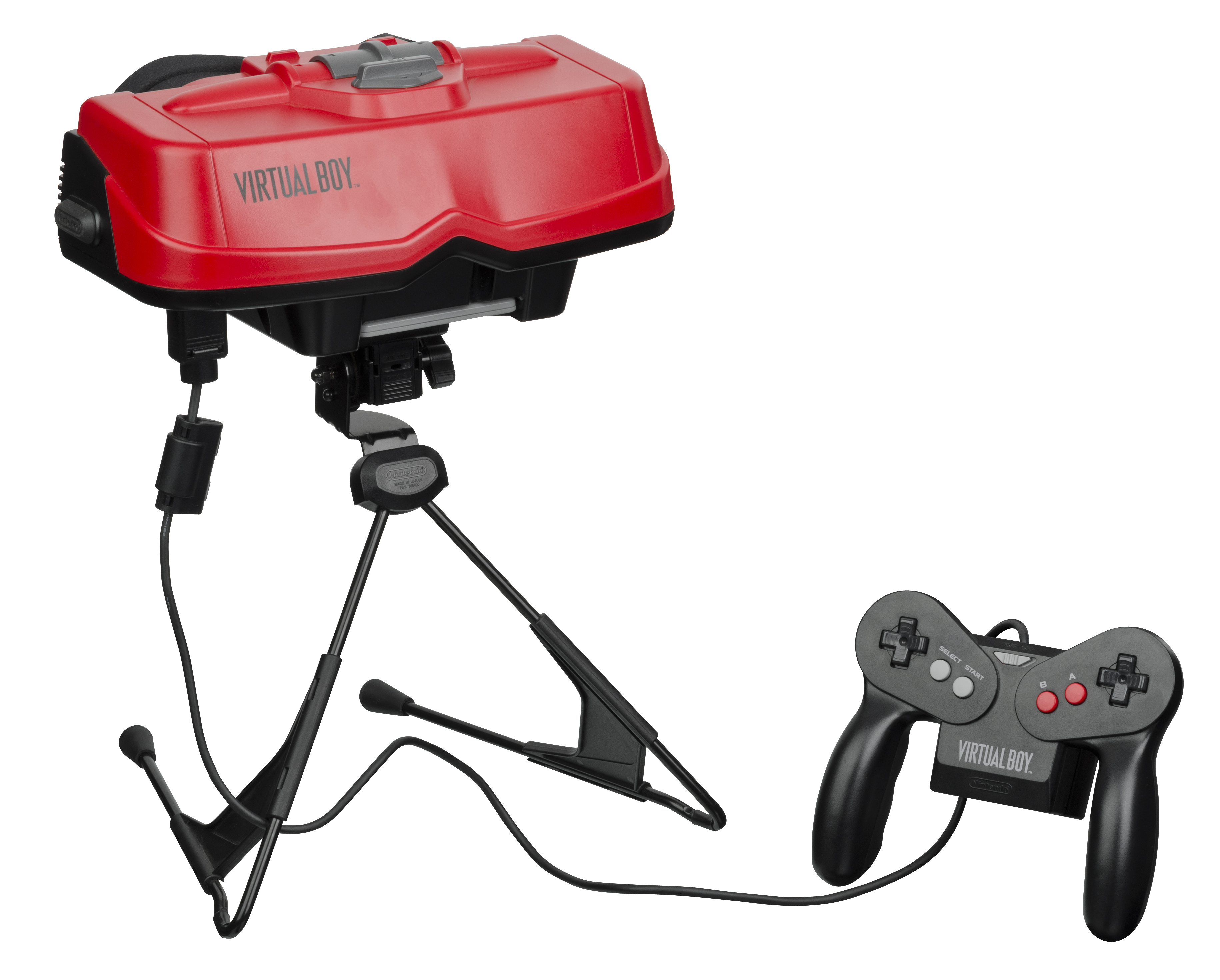 The Nintendo Virtual Boy, an unsuccessful VR gaming console from Nintendo. Released in 1995, it made use of red LEDs and oscillating mirrors to provide a stereoscopic 3D experience. Less than two dozen games were released before the system was discontinued.